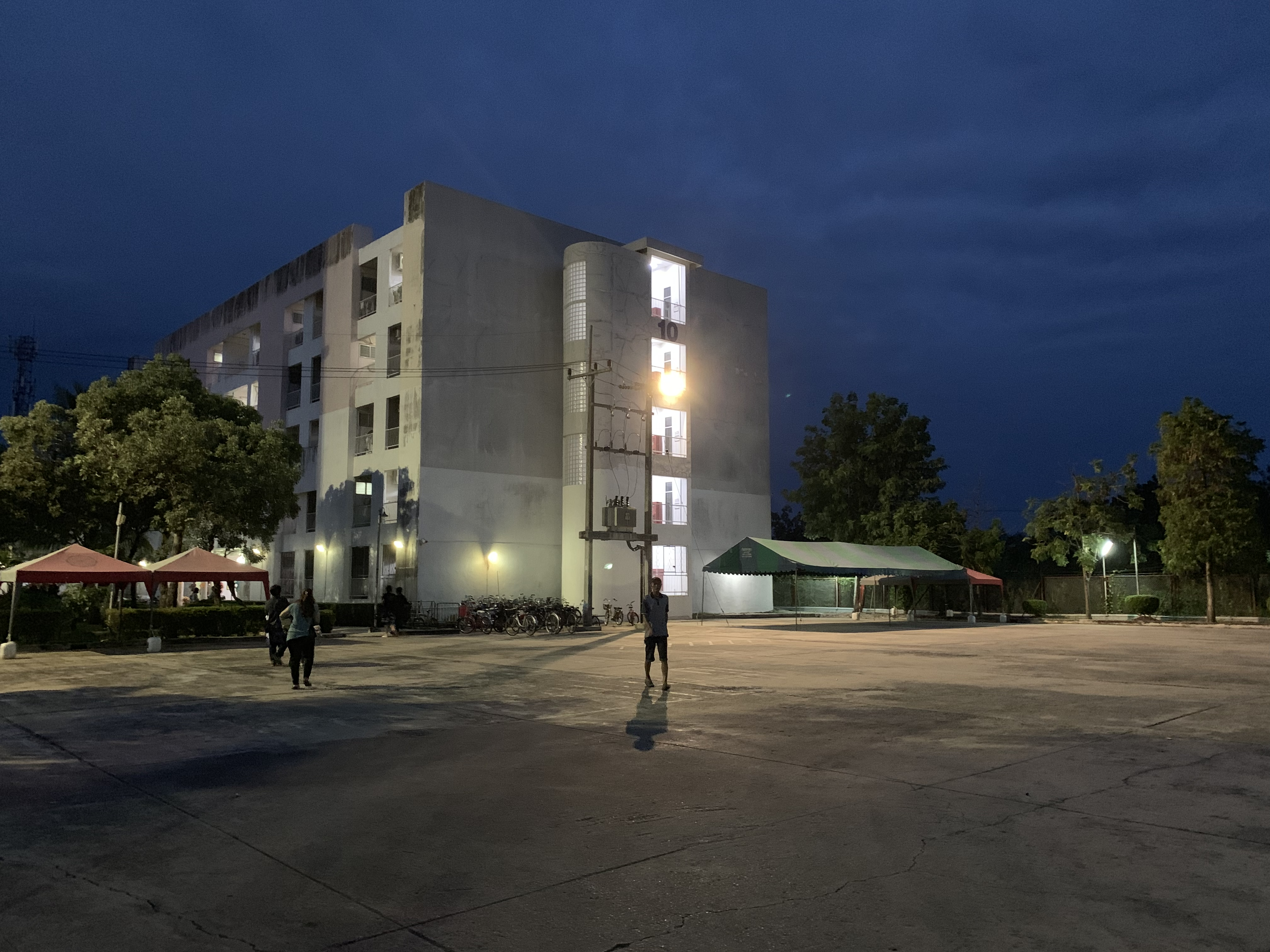 Women dorm no 10 (SWU Ongkharak)